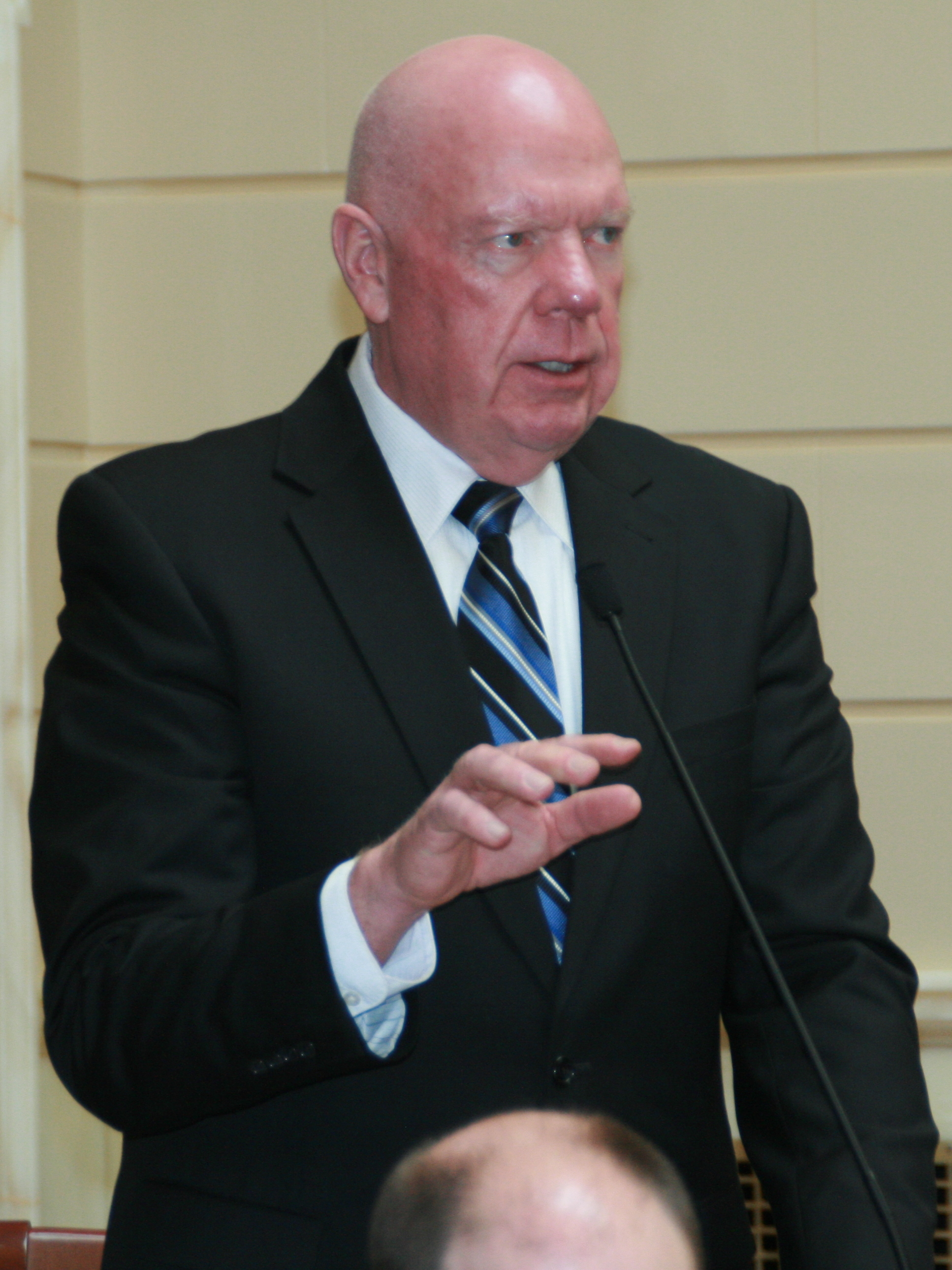 Senator Howard Stephenson